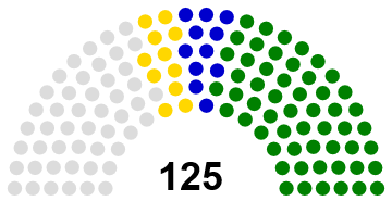 Mejlis (Unicameral Parliament) of Turkmenistan after the last elections 25 March 2018 Democratic Party of Turkmenistan: 55 seats Party of Industrialists and Entrepreneurs of Turkmenistan: 11 seats Agrarian Party of Turkmenistan: 11 seats Independents: 48 seats